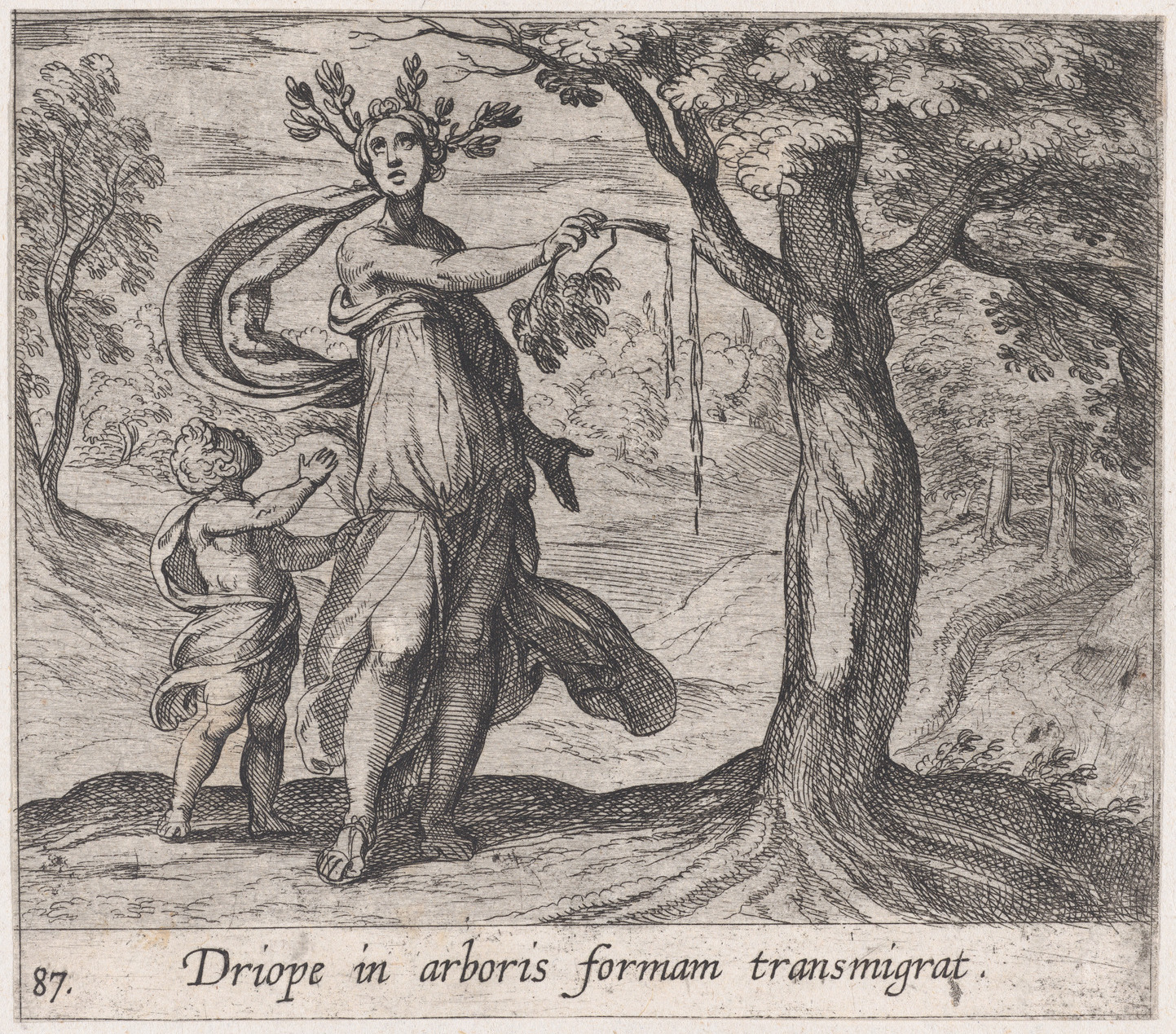 Print; Prints